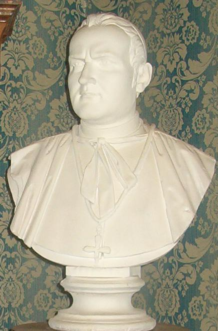 Marble bust of Francesco Pedicini, Italian bishop, inside of Pedicini chapel, Foglianise, Campania, Italy